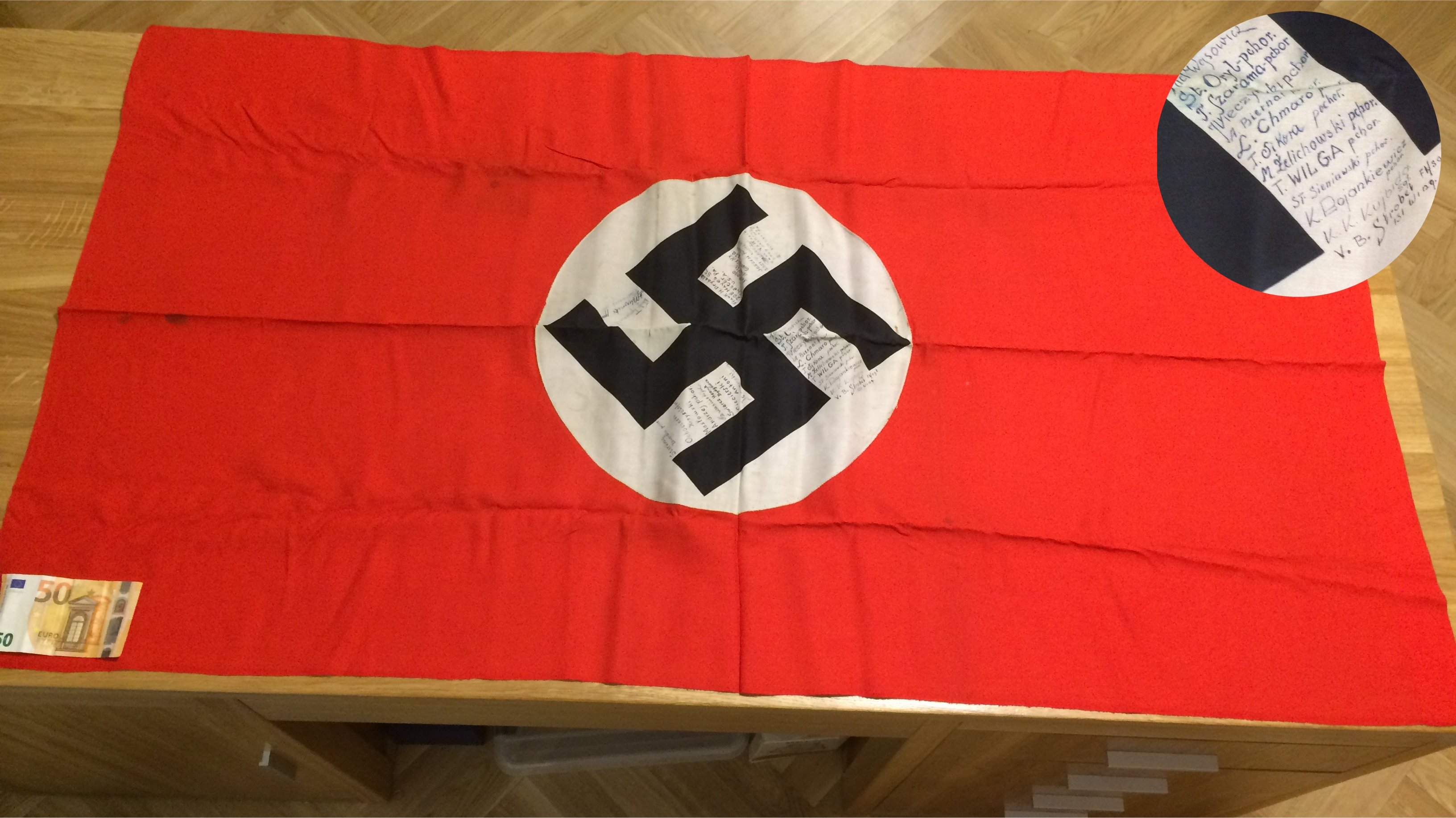 Autographed german flag captured by polish pilots of 308 devision R.A.F. Legal disclaimer This image shows (or resembles) a symbol that was used by the National Socialist (NSDAP/Nazi) government of Germany or an organization closely associated to it, or another party which has been banned by the Federal Constitutional Court of Germany. The use of insignia of organizations that have been banned in Germany (like the Nazi swastika or the arrow cross) are also illegal in Austria, Hungary, Poland, Czech Republic, France, Brazil, Israel, Ukraine, Russia and other countries, depending on context. In Germany, the applicable law is paragraph 86a of the criminal code (StGB), in Poland – Art. 256 of the criminal code (Dz.U. 1997 nr 88 poz. 553).